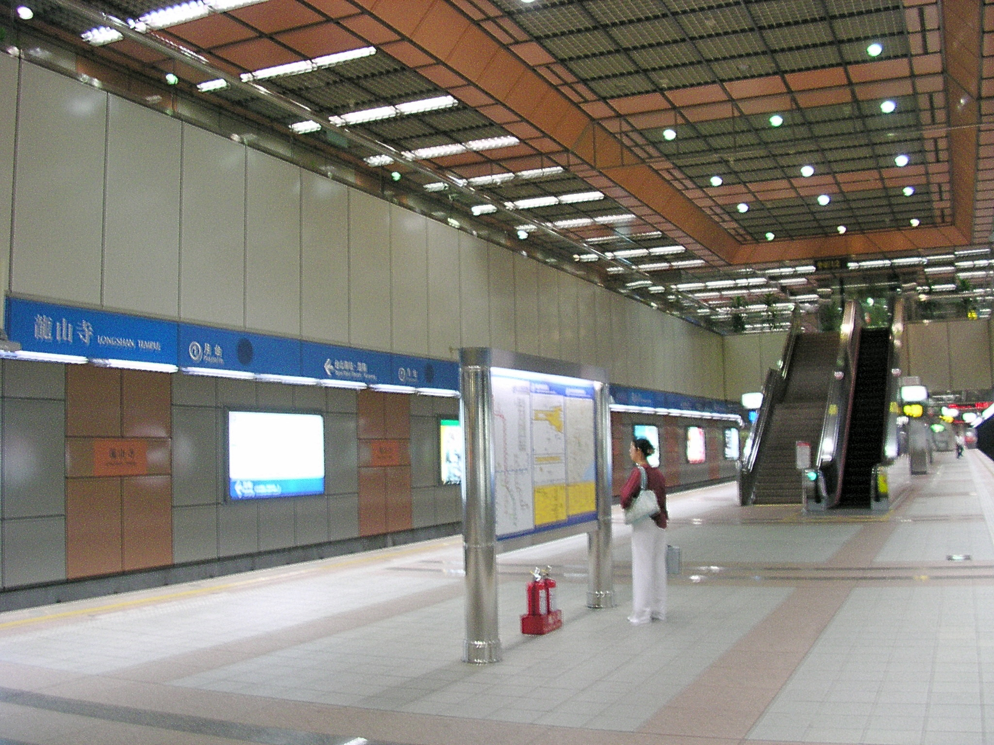 Inside Taipei MRT Longshan Temple Station